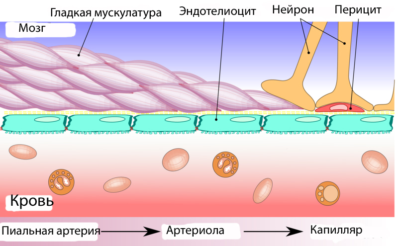 This file was taken from german wikipedia article (Blut-Hirn-Schranke) which was made by user Kuebi = Armin Kübelbeck under licence Creative Commons Attribution 3.0 Unported. I changed german words in russian with Photoshop